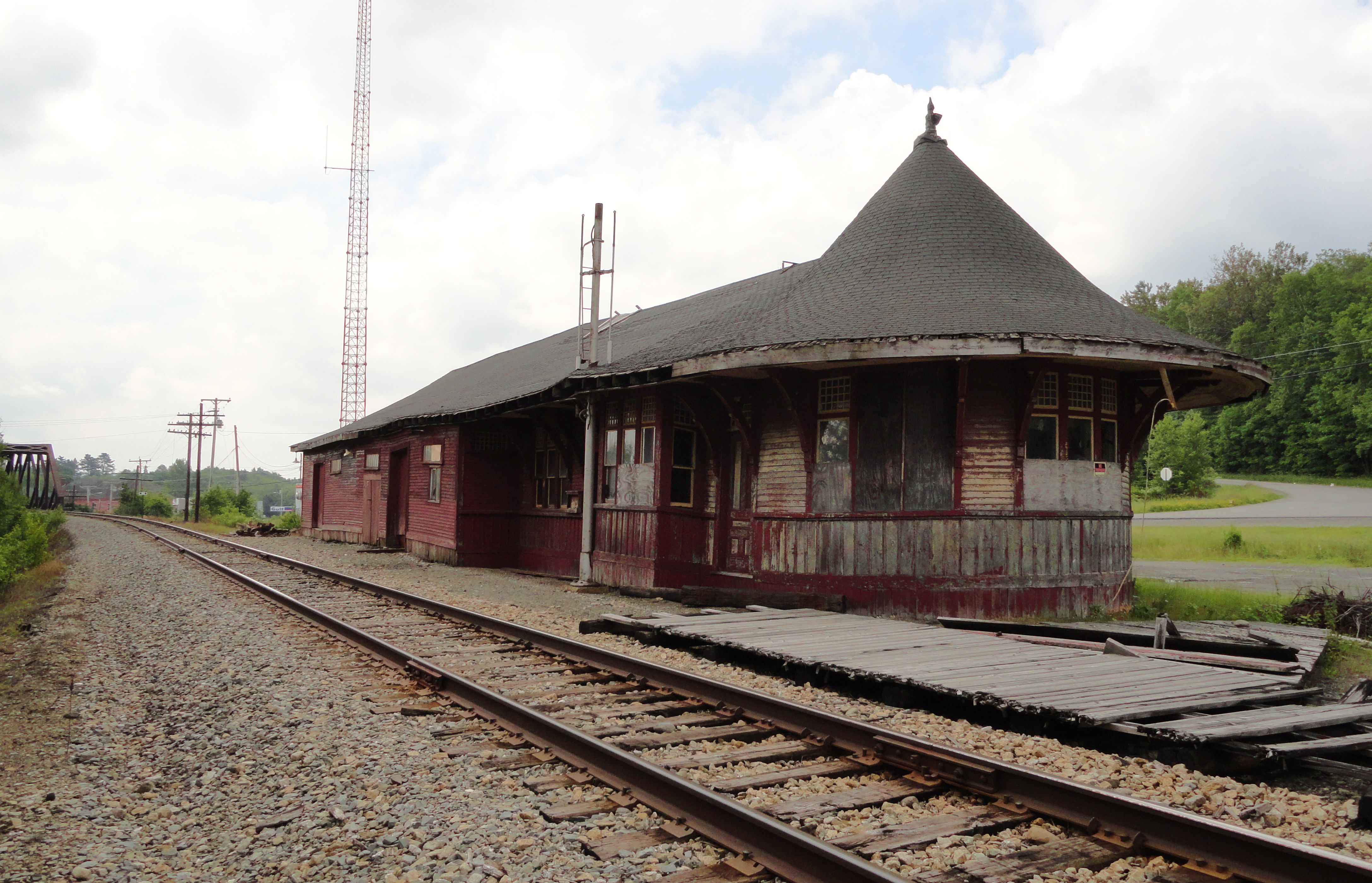 View of Canadian Pacific Railway station in Greenville Junction, Maine. Opened in 1889 for the International Railway of Maine, owned by CPR. Passenger service ended in 1960s. Looking southeast towards trestle and former junction with Bangor and Aroostook RR (line abandoned 1960s) at Moosehead Lake.